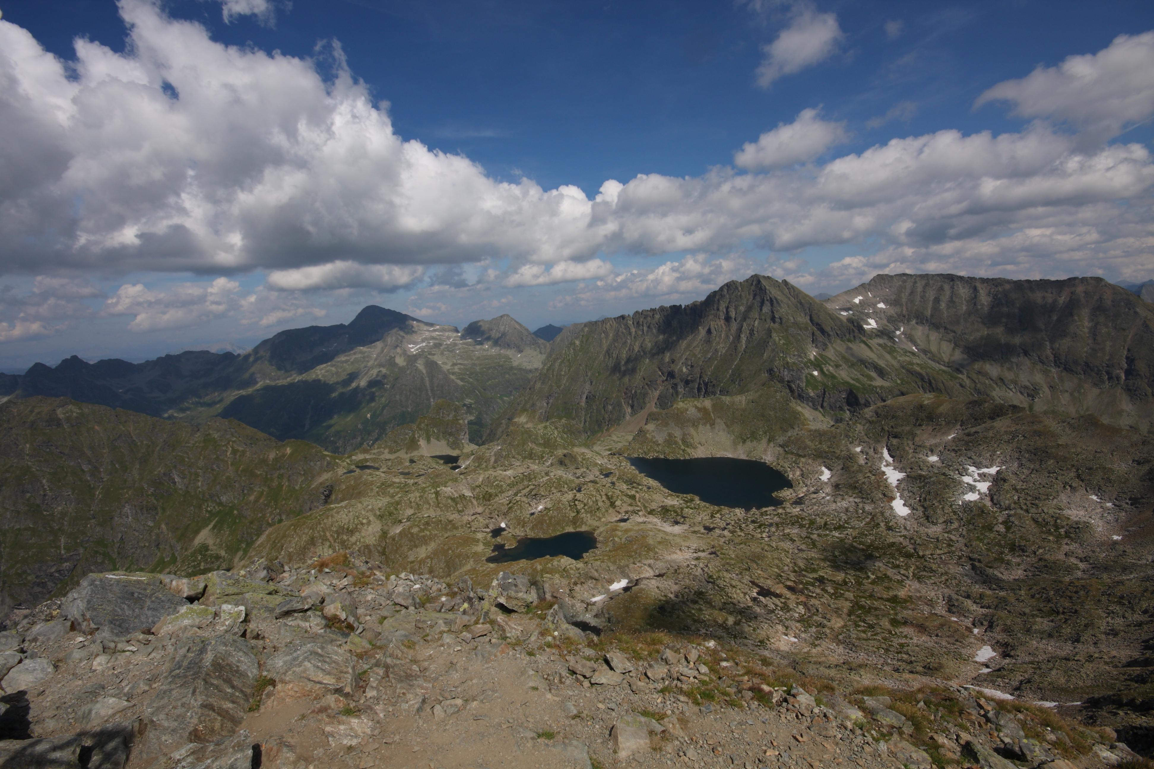 Klafferkessel, Schladminger Tauern, Austria, Styria